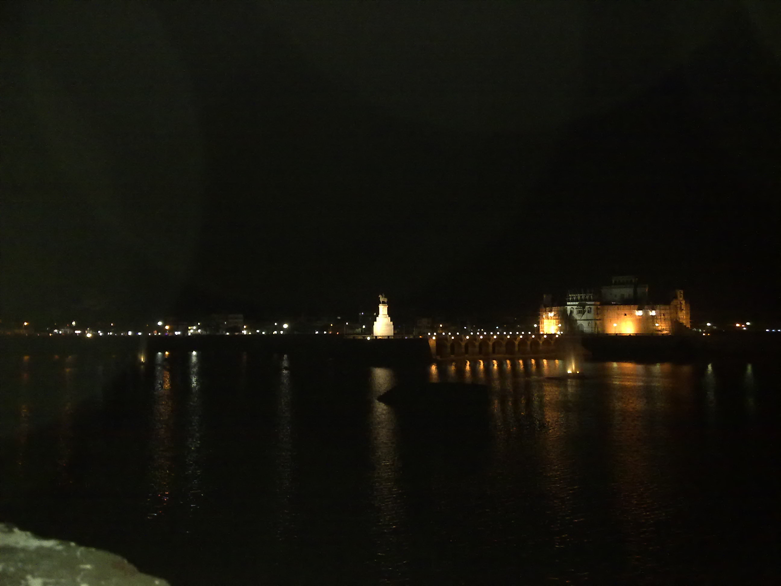 This is Lakhota Lake and a museum in its midst at Jamnagar